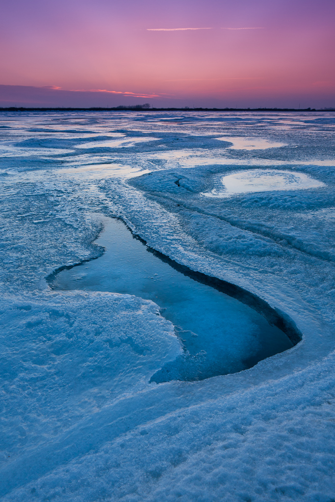 Exceptionally frozen lagoon near Venice...